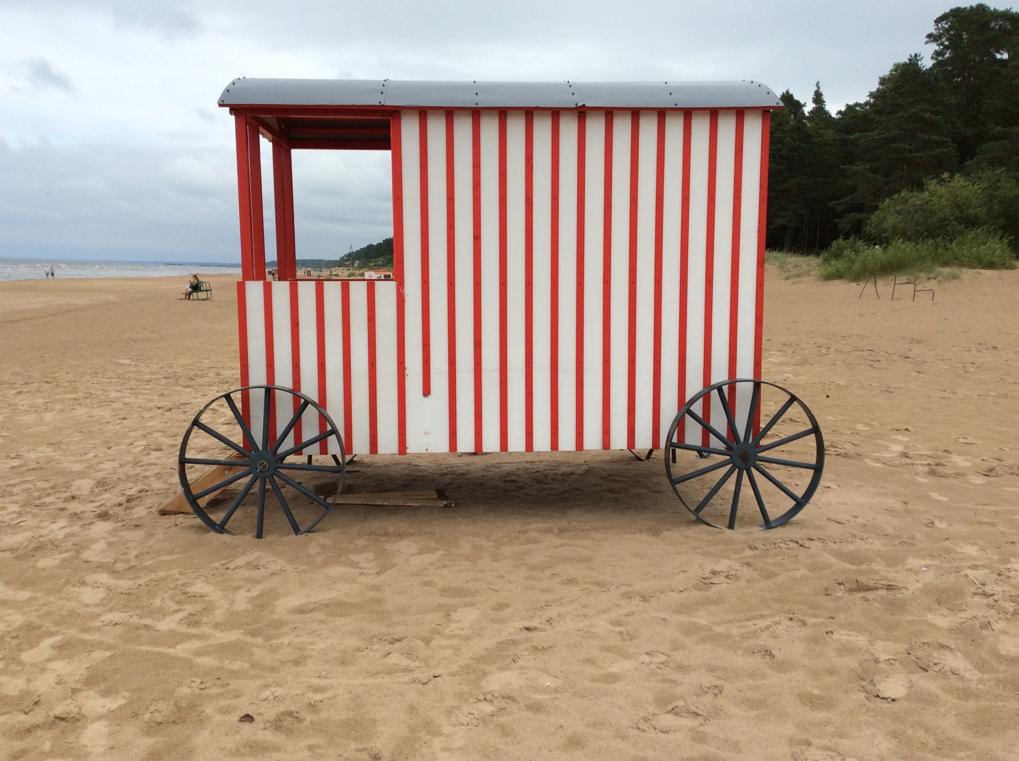 Bathing machine on the beach in Narva-Jõesuu.